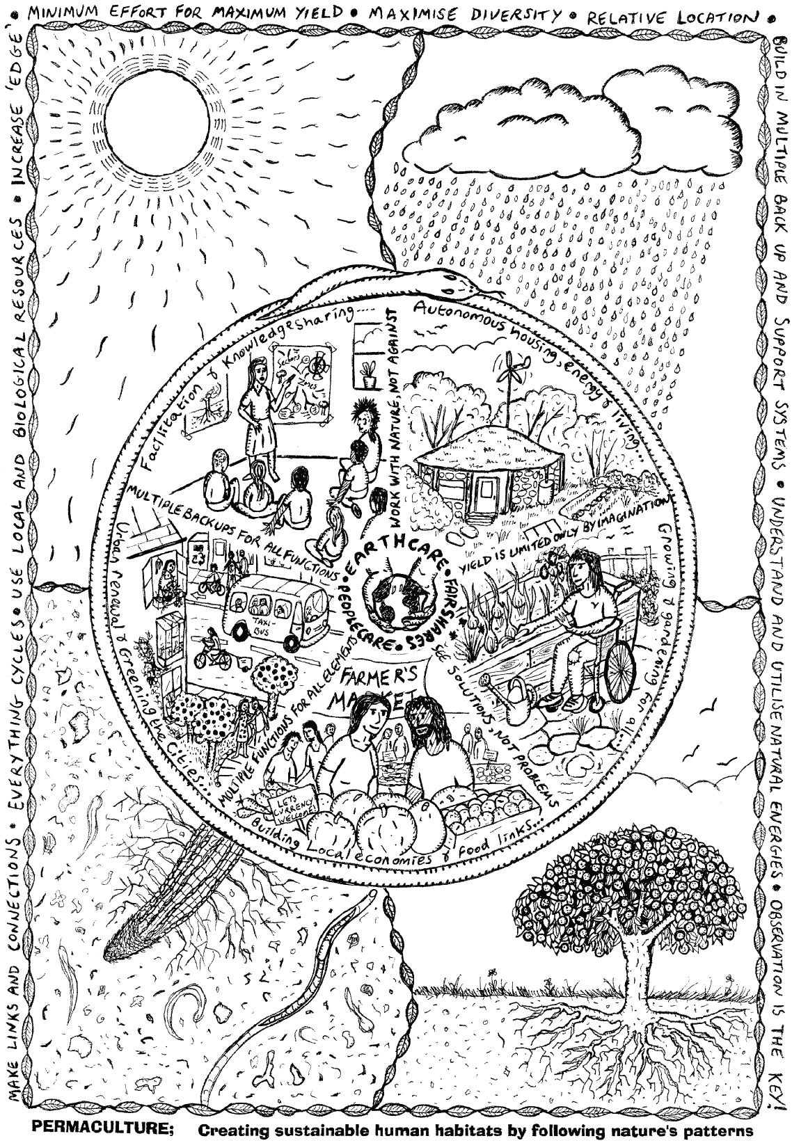 Permaculture mandala. If reused a credit would be appreciated.